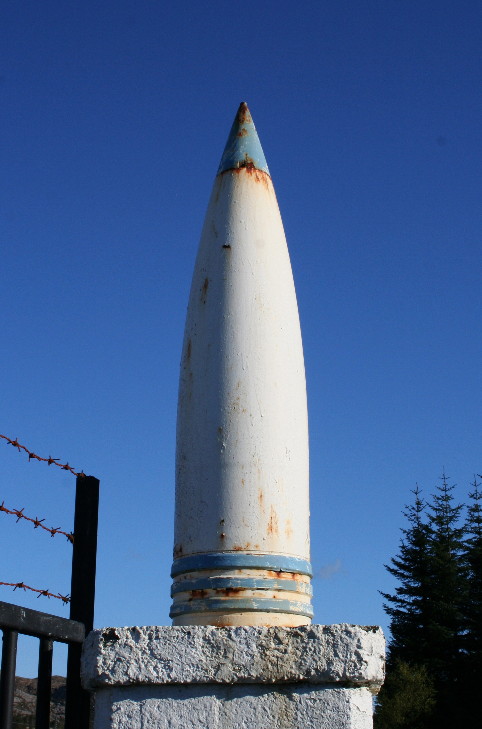 A grenade from Fjell Festning, placed on top of the main gate blocking the way in to the area.